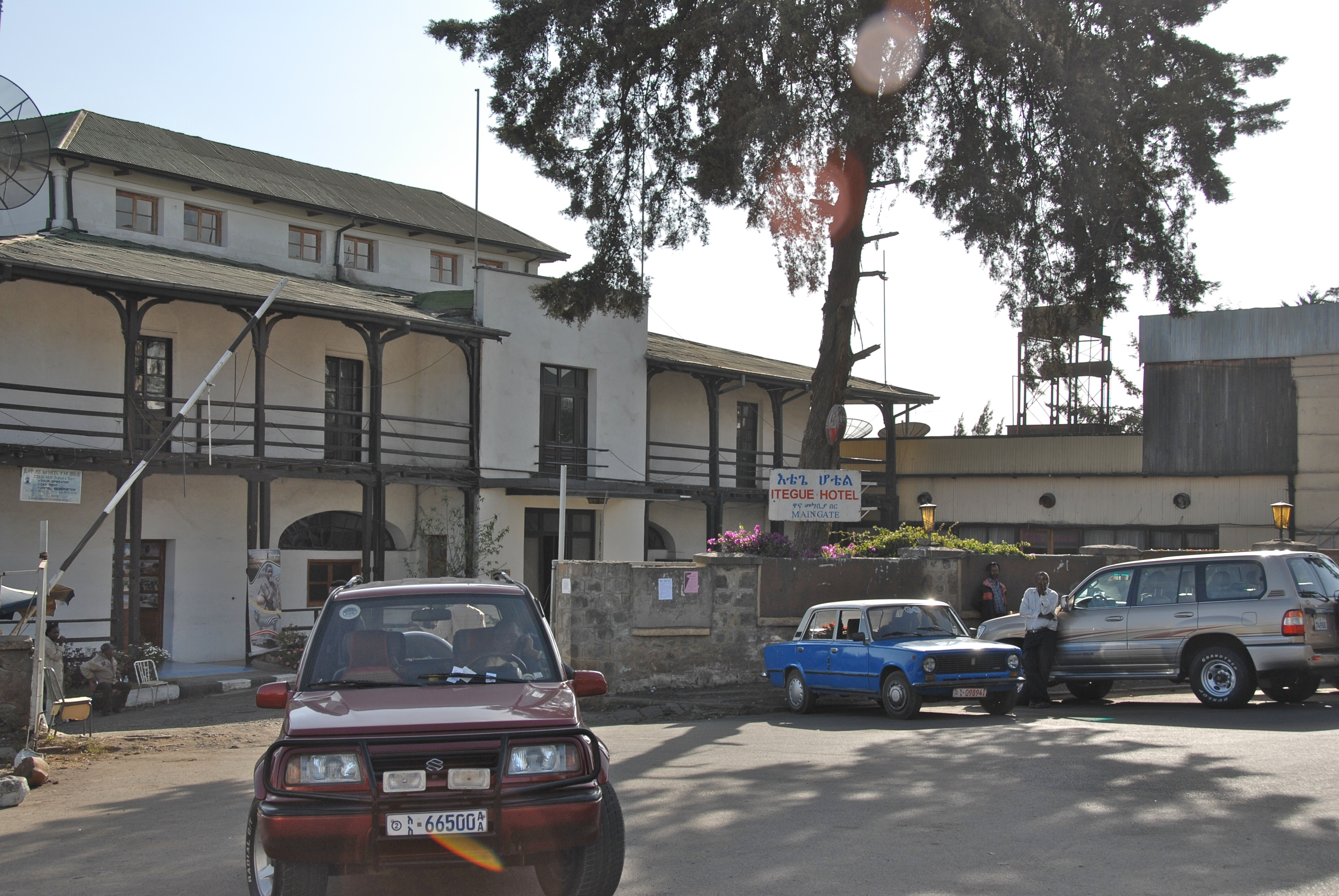 First hotel in Addis, Hotel Itegue, 1898